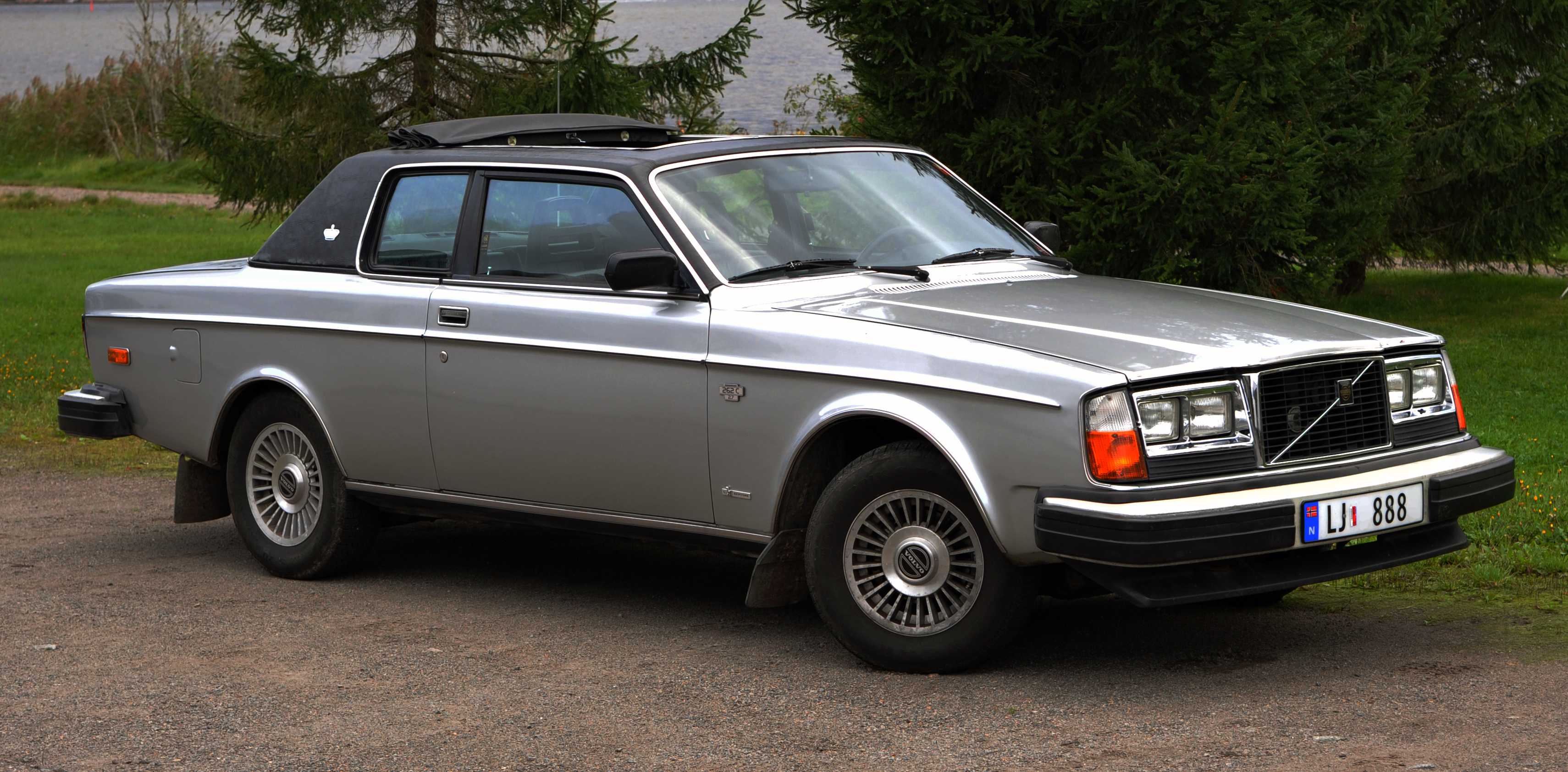 A 1978 Volvo 262 Coupé Bertone in Norway. This car has US market headlights and a large sunroof.